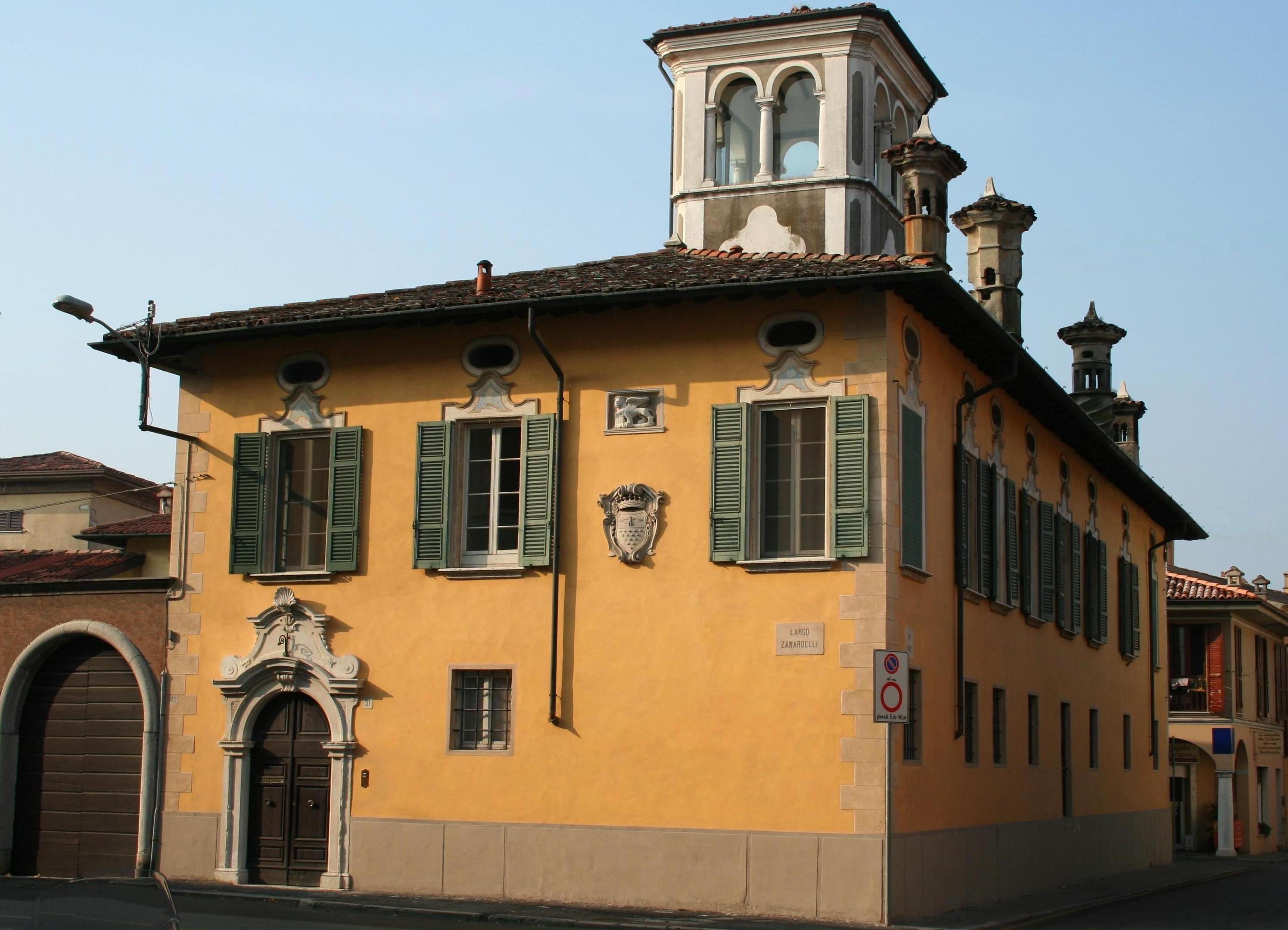 Building Mondella XVIII century-GHEDI (Brescia) ITALY